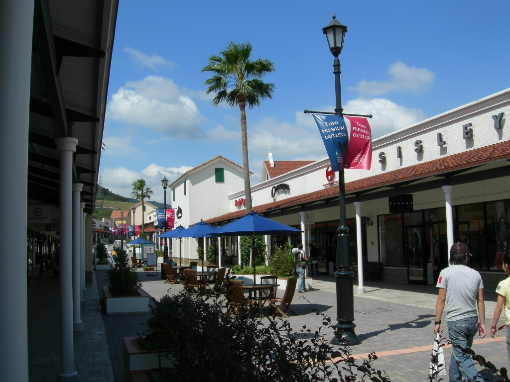 Tosu Premium Outlets, Tosu, Saga, Japan. Taken by Minto in September 2006.